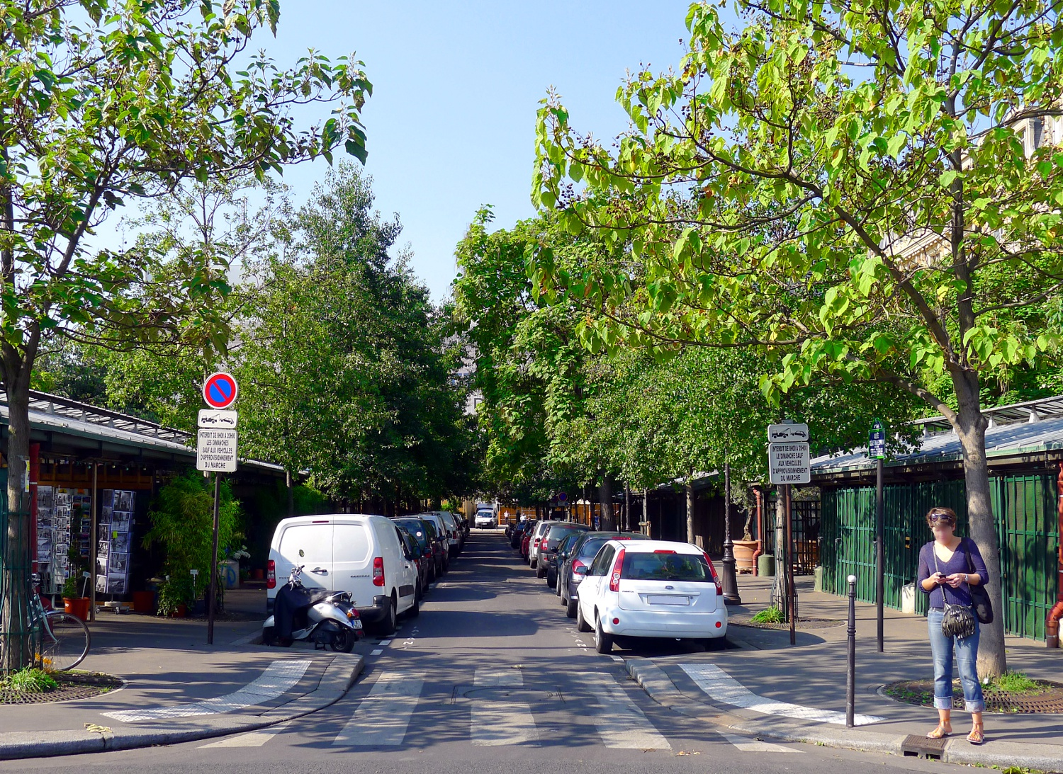 Louis-Lépine place - Paris